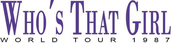 Logo for the Who's That Girl Tour